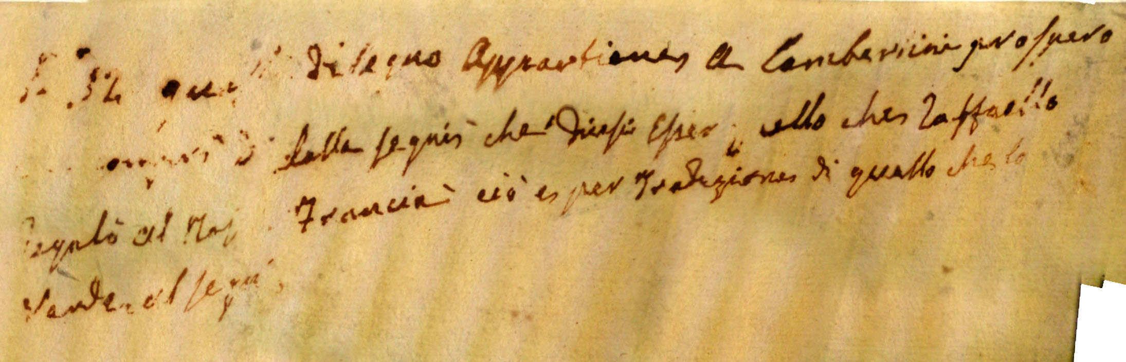 "This drawing belongs to Lambertini Prospero tollowing that which is the one Raphael gifted to Francesco Francai